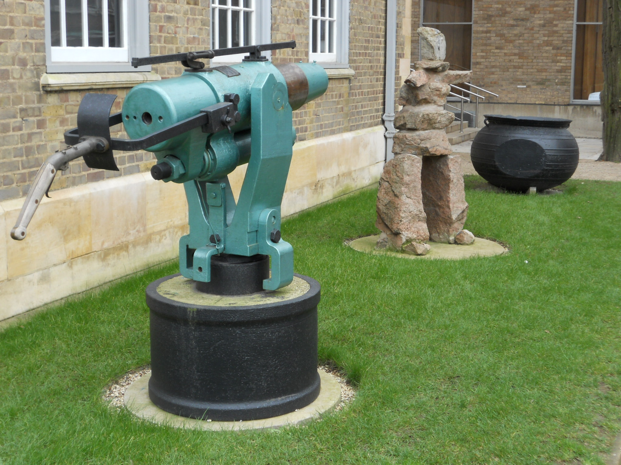 SPRI: whaling harpoon gun, inukshuk, and orcing pot.